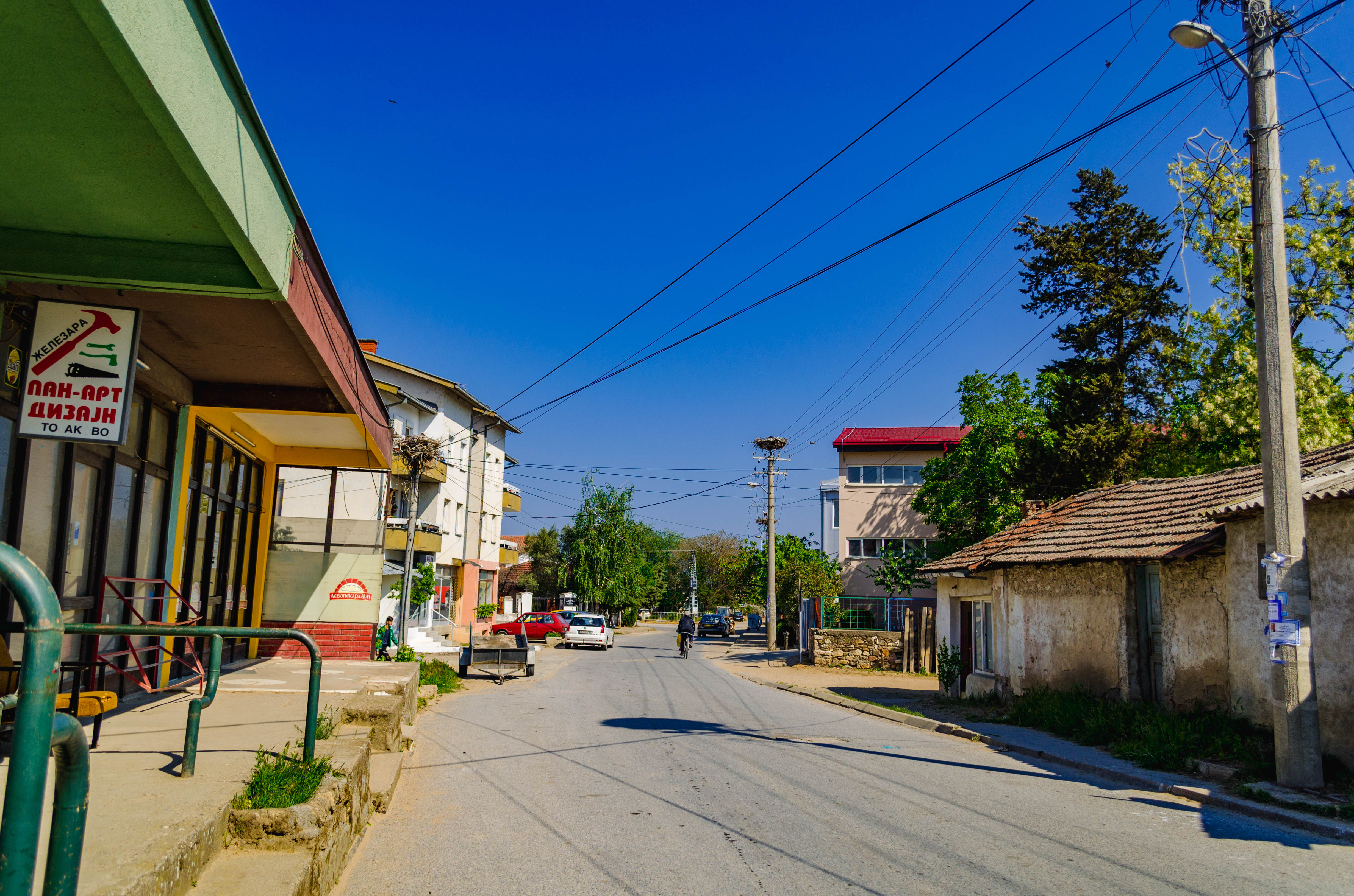 Street in the village Stojakovo